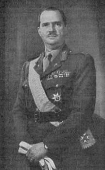 Photo of Prince Félix of Luxembourg, Prince of Parma and Princely consort of Luxembourg (1893-1970)